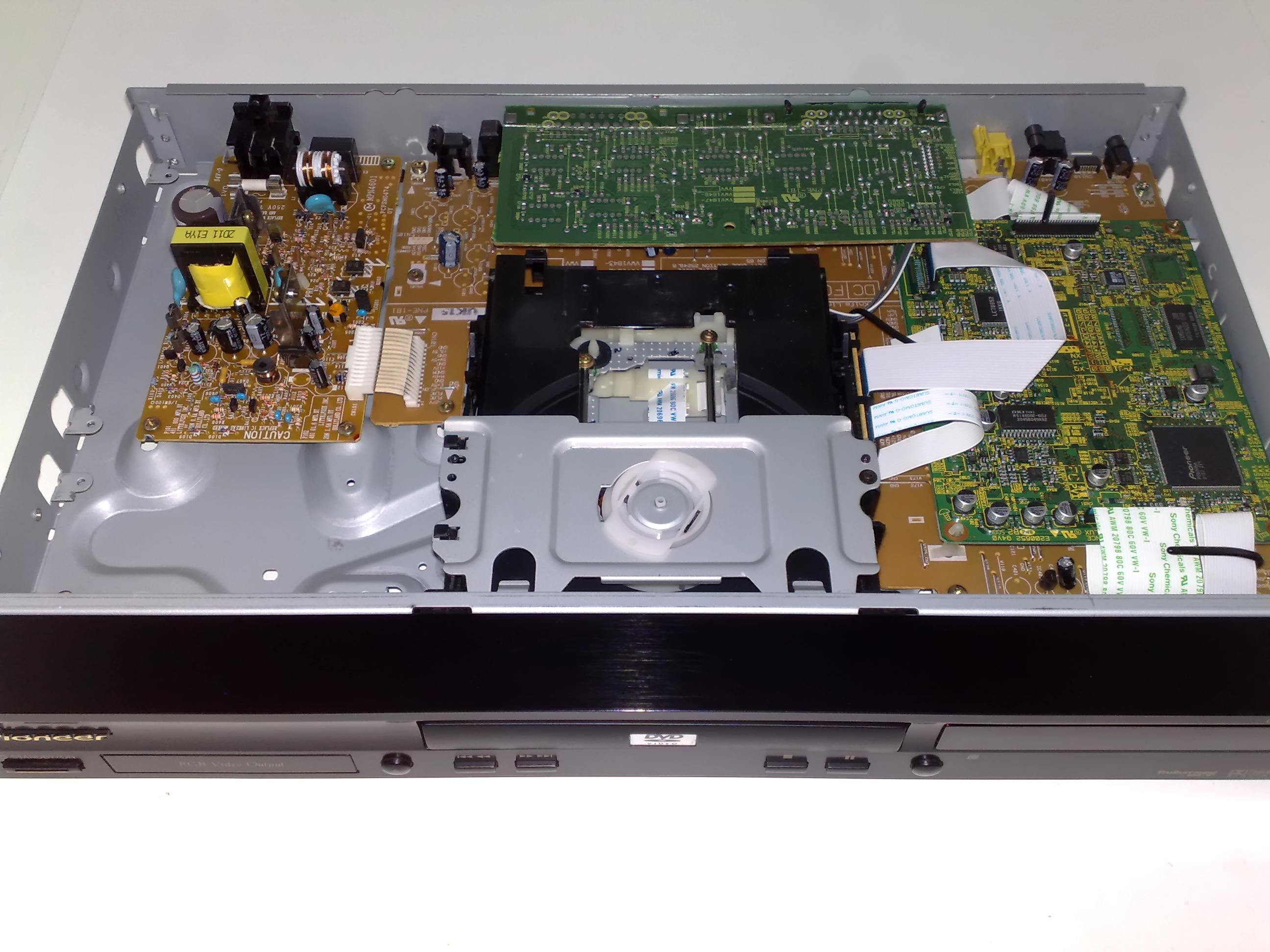 Pioneer DV-444-K DVD-player opened.